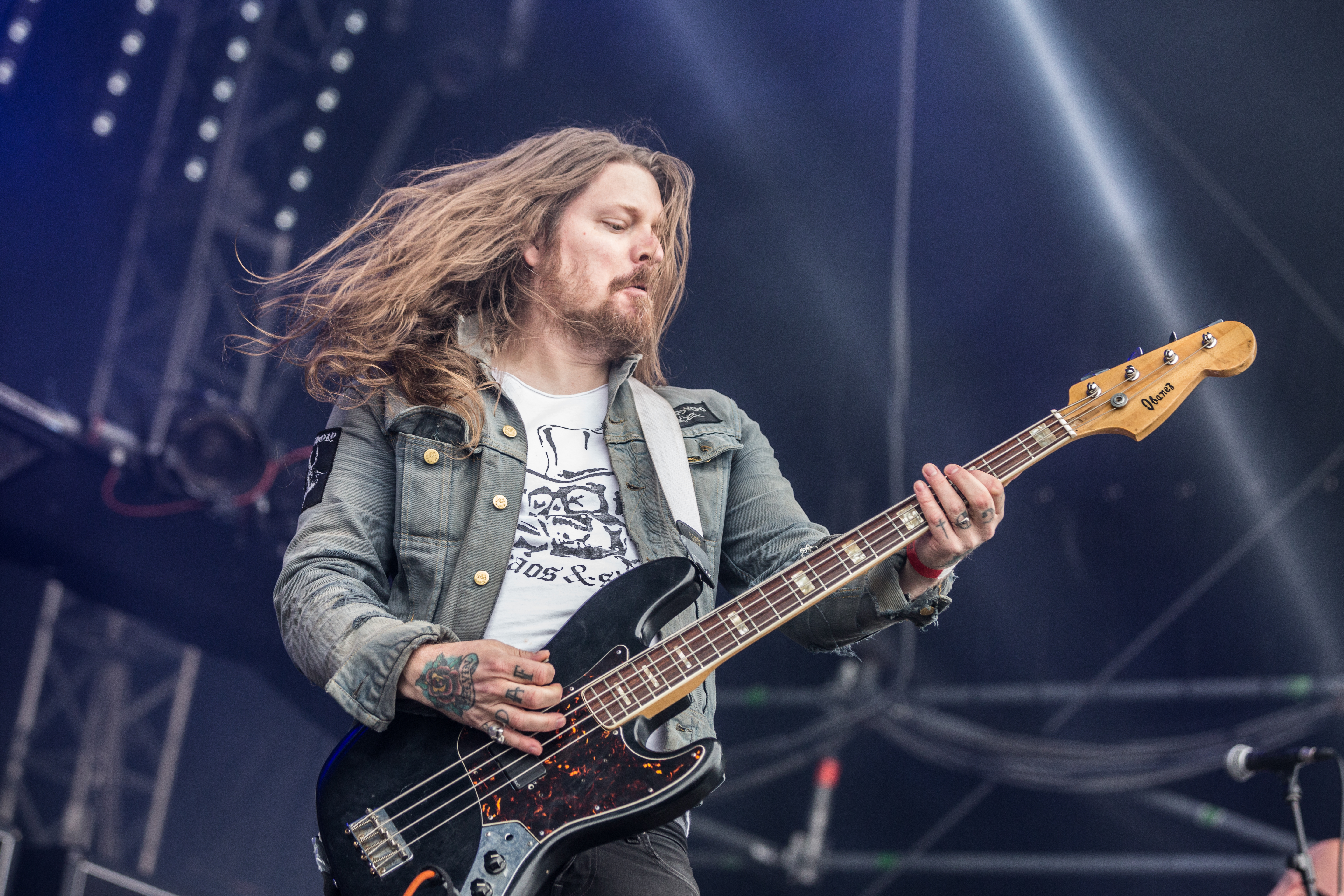 The Swedish death/thrash metal band Merciless at the Party.San Metal Open Air 2017 in Obermehler-Schlotheim/Germany.